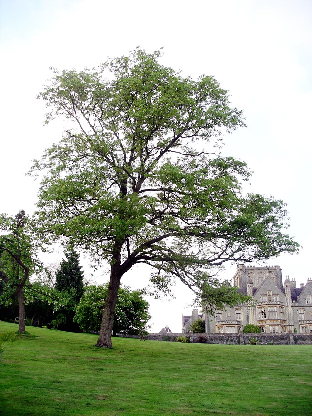 Chinese cork oak at Tortworth Court